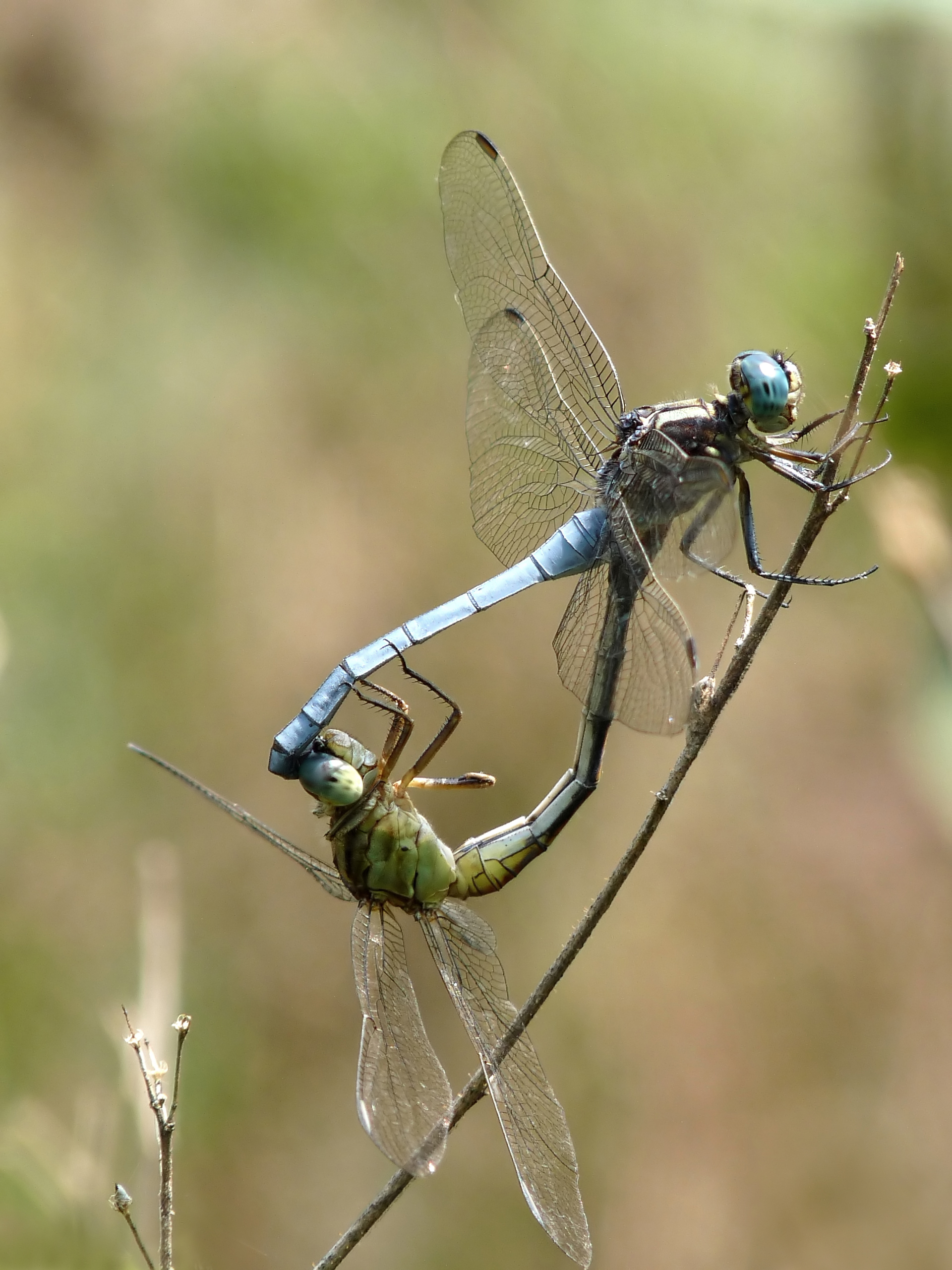 Orthetrum luzonicum, Tricolored Marsh Hawk, is a medium sized dragonfly with blue, yellow and brown markings. Eyes are bluish green with violet or brownish spots. Thorax is pale olivaceous green with brown lateral stripes. Dorsal side has a distinct yellow "Y" shaped mark. In older individuals, brown and yellow markings may be totally replaced by pale blue pruinescence. They look alike Orthetrum glaucum and Orthetrum triangulare. However, the eyes of Orthetrum luzonicum are a vivid blue/green colour and of Orthetrum glaucum eyes are dull in comparison. The male's thorax and abdomen are bright powdery blue and S9-10 can be black, though there are specimens where this turns blue too. The males also have slight yellow/black markings on the abdomen, which seem slightly variable depending on age. Like the male, the female becomes pruinosed. The thoracic markings are different and the eyes are similar in colour to that of the male, making it easily identifiable.